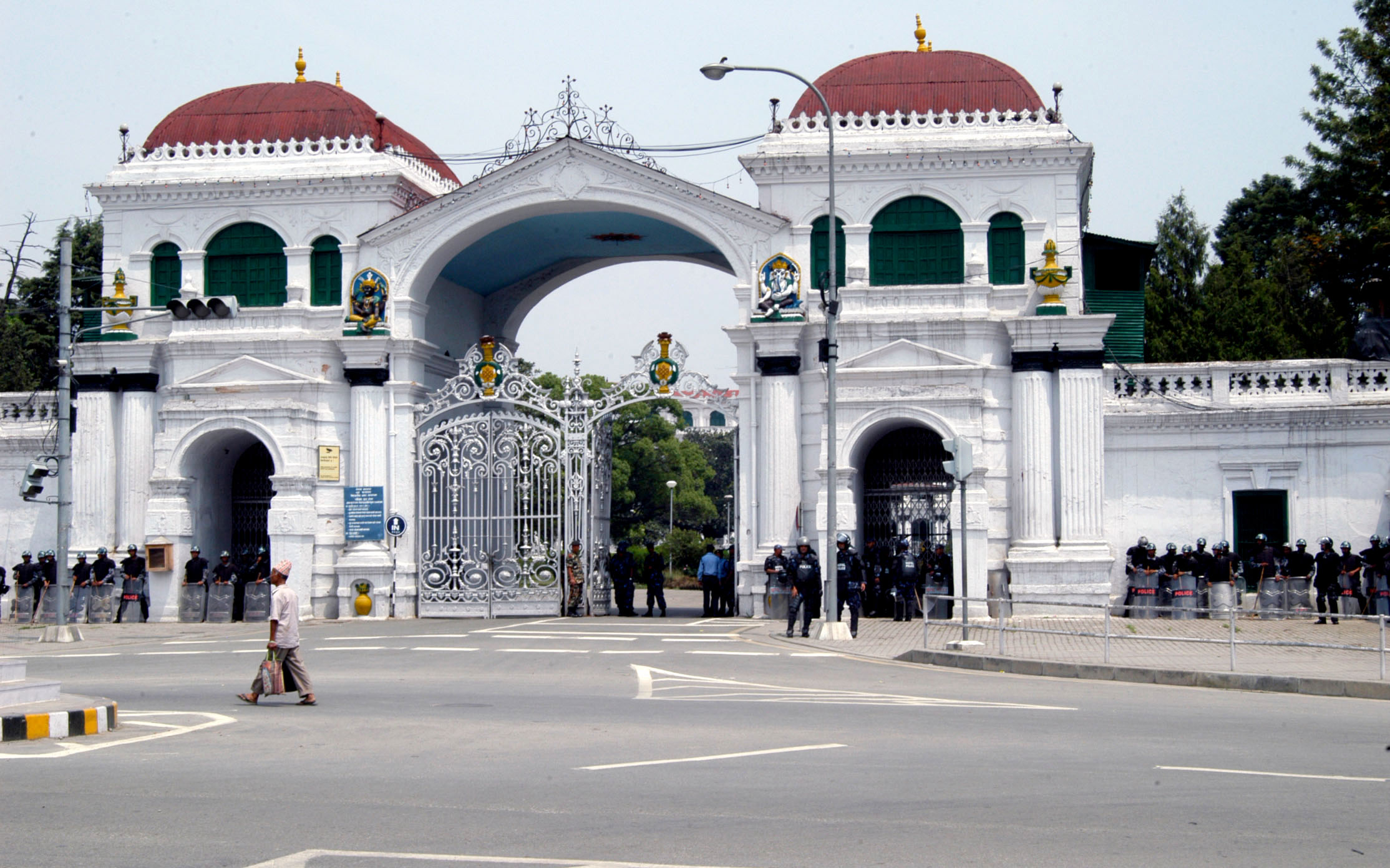 Main or Western Gate Simha Durbar